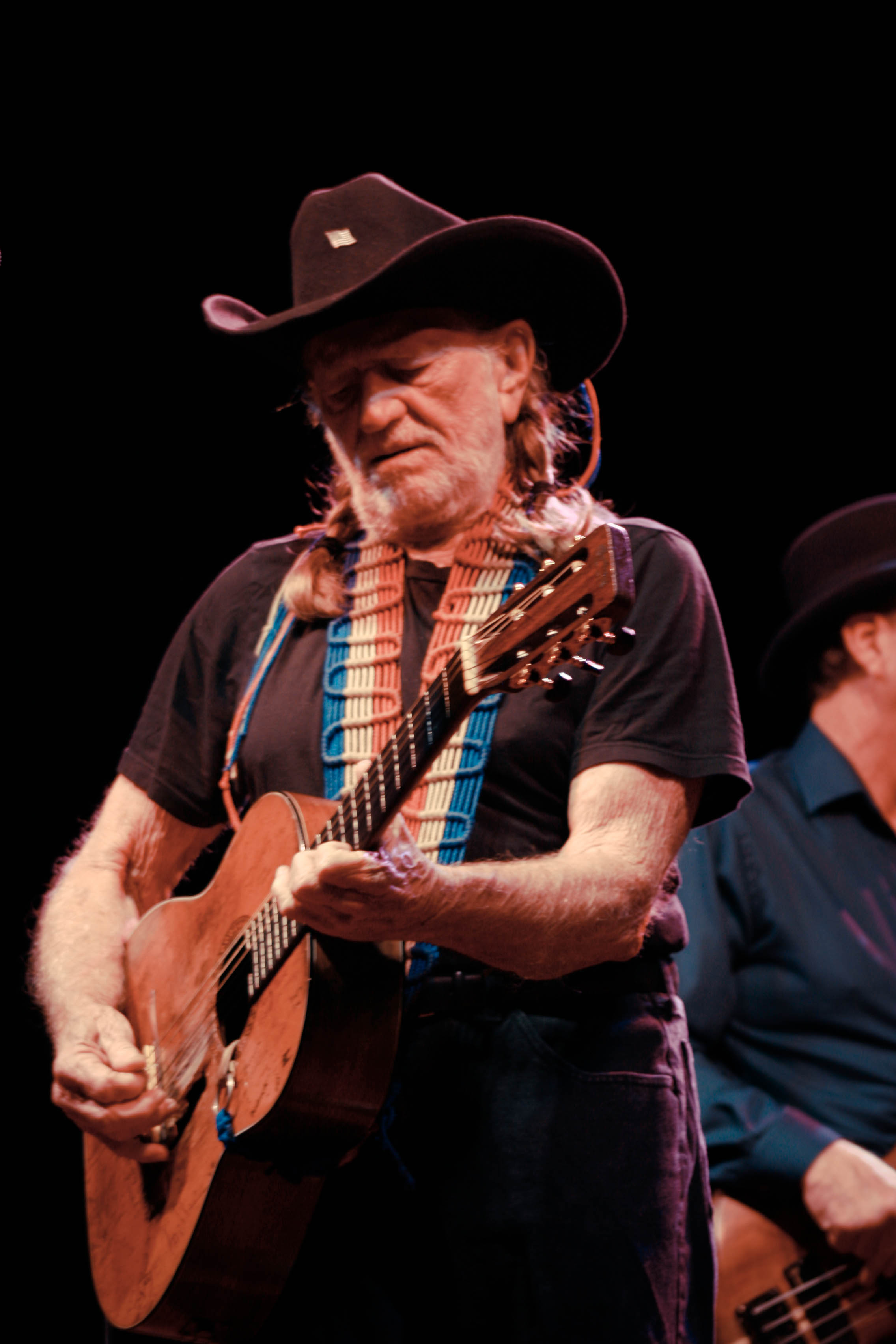 Singer-songwriter Willie Nelson, performing during the Country Throwdown Tour in 2011